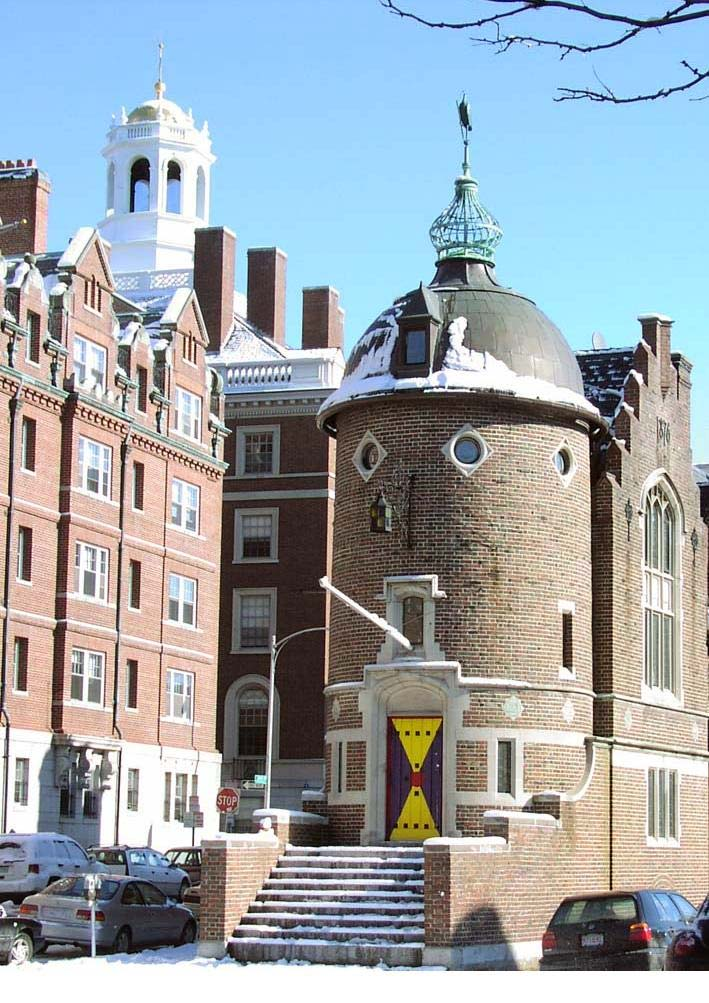 This image appeared on English Wikipedia's Main Page in the Did you know? column on 16 June 2011 (see archives). Harvard Lampoon building.